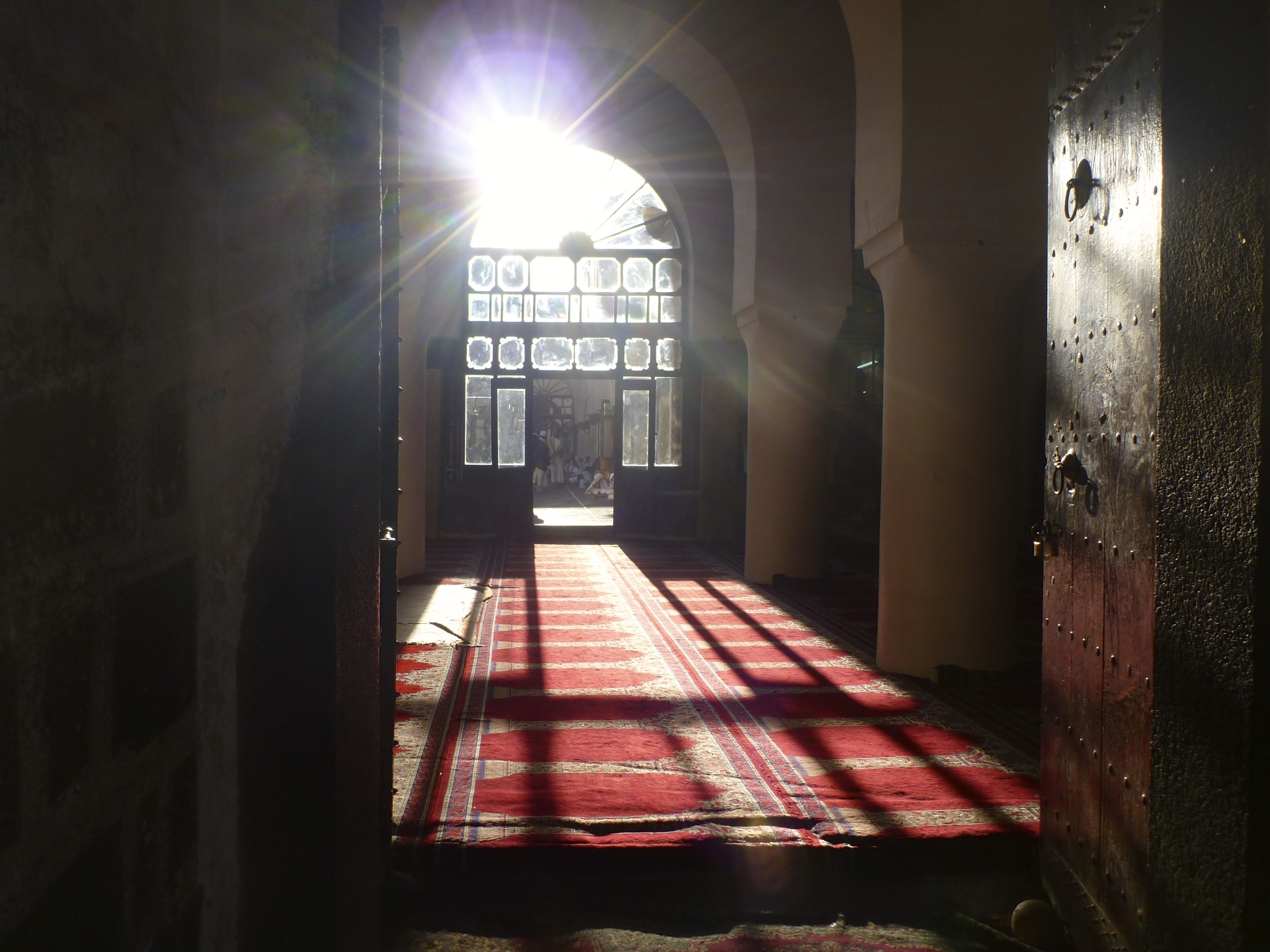 Another View of the interior of Breat Mosque of Sana'a